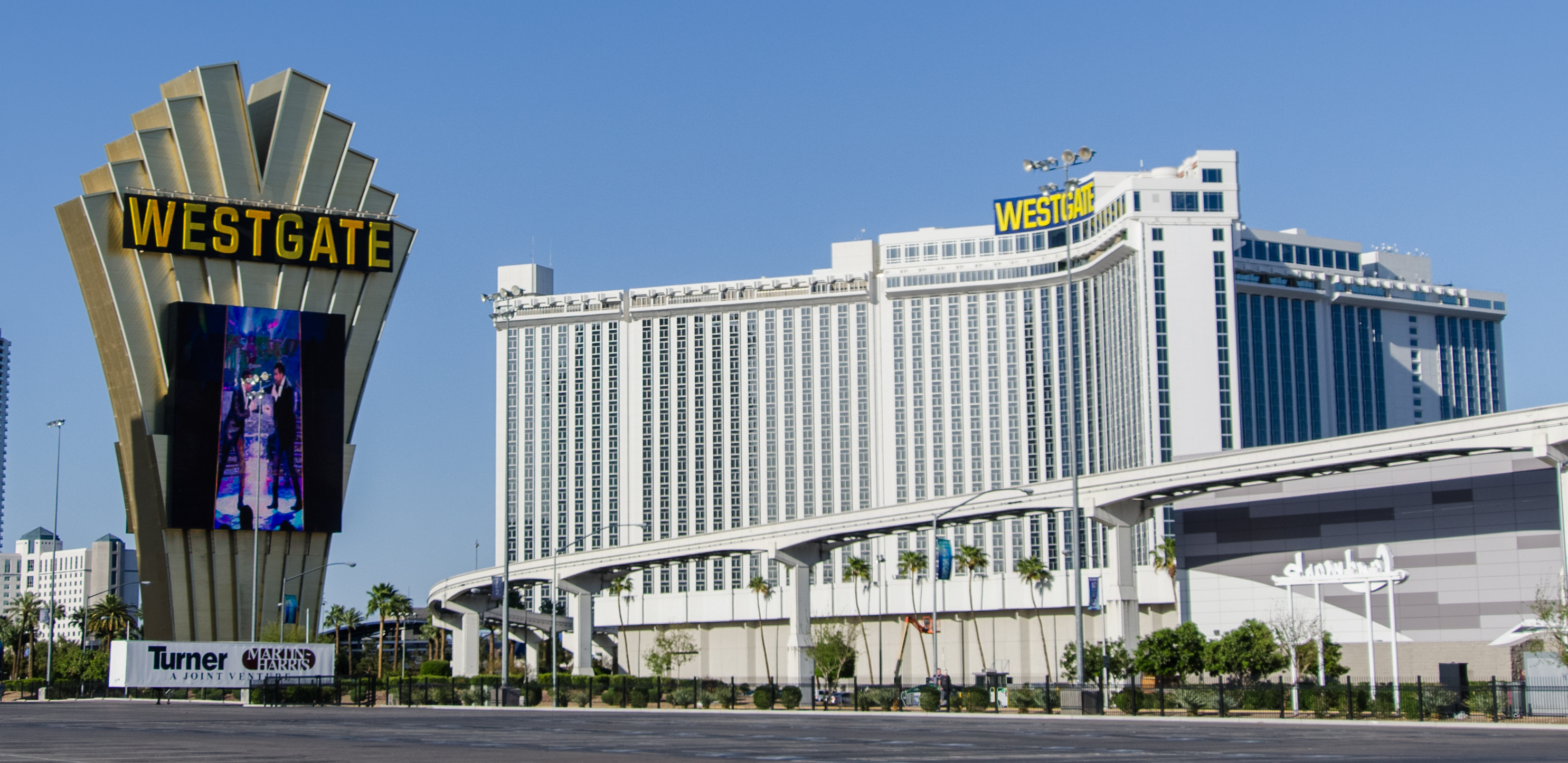 Photo of the Westgate Las Vegas hotel and casino in Winchester, Nevada